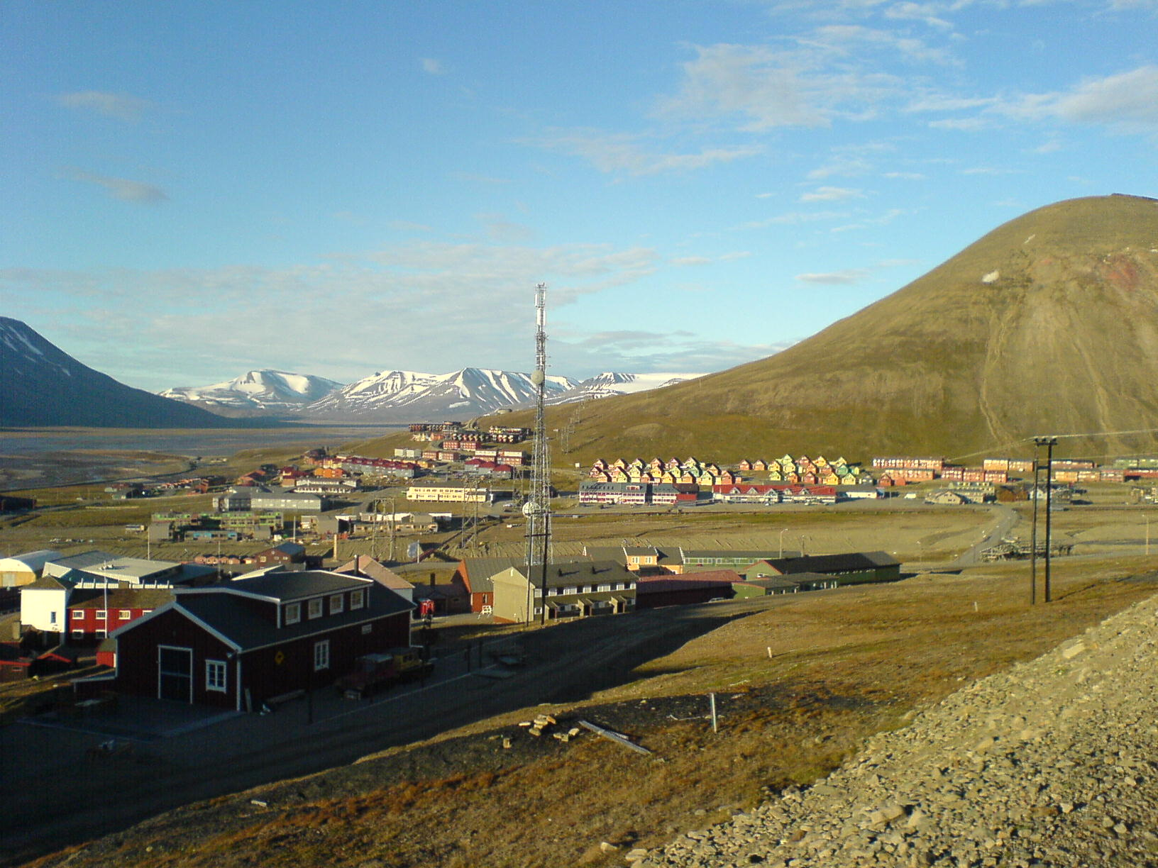 The panorama of Longyearbyen, Svalbard (Spitsbergen)